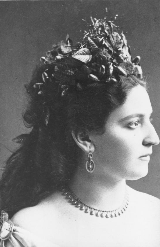 Caroline von Gomperz-Bettelheim, hungarian-austrian court singer